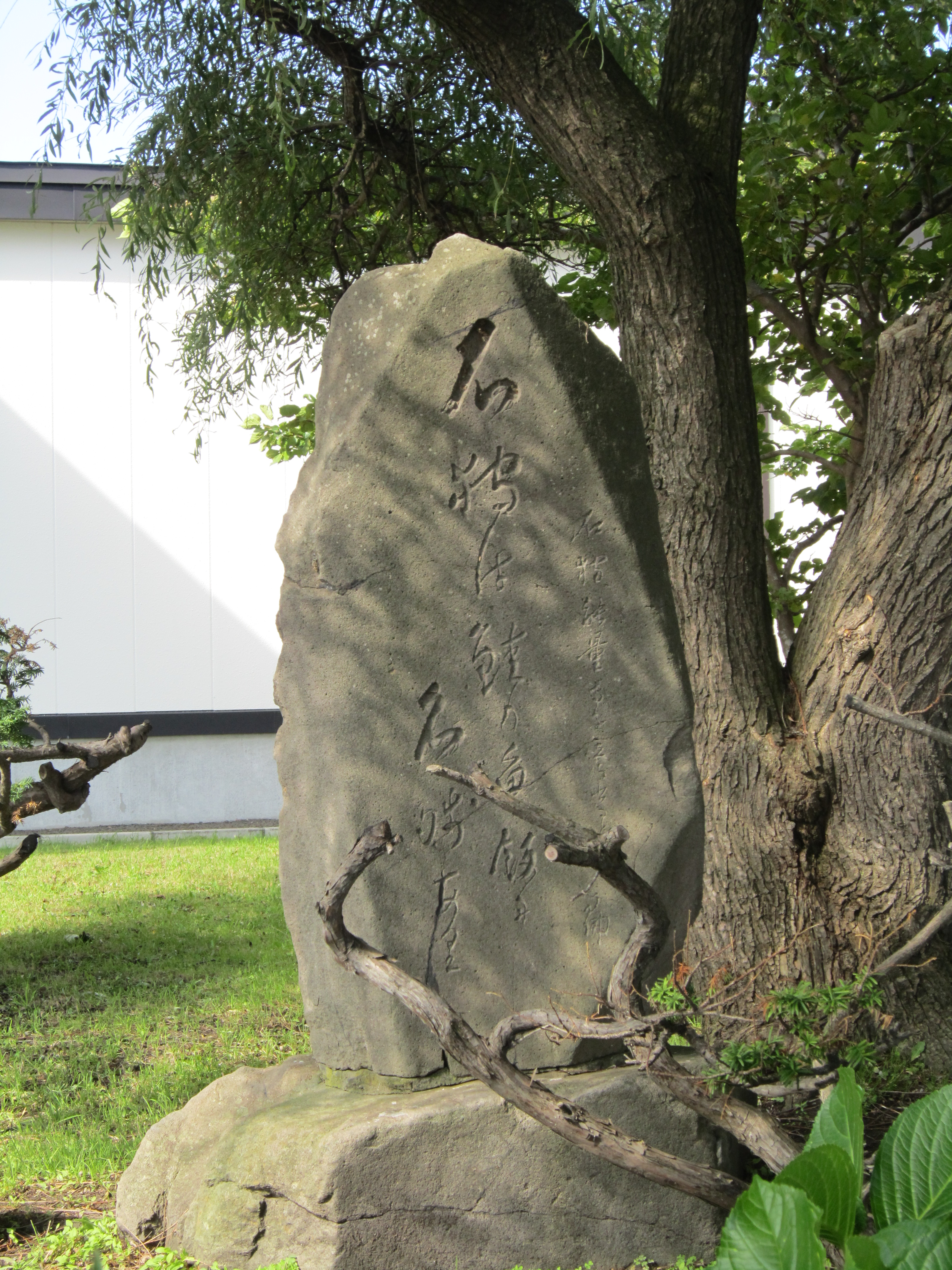 Haiku Monument at Noryo-ji